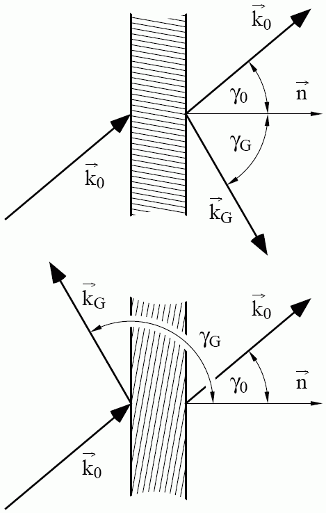 Laue and Bragg geometries, top and bottom, as distinguished by the Dynamical theory of diffraction with the Bragg diffracted beam leaving the back or front surface of the crystal, respectively. Author: Klaus-Dieter Liss Reference: K.-D. Liß, "Strukturelle Charakterisierung und Optimierung der Beugungseigenschaften von Si 1-x Ge x Gradientenkristallen, die aus der Gasphase gezogen wurden" . Dissertationsschrift, Rheinisch Westfälische Technische Hochschule Aachen, (27 October 1994)